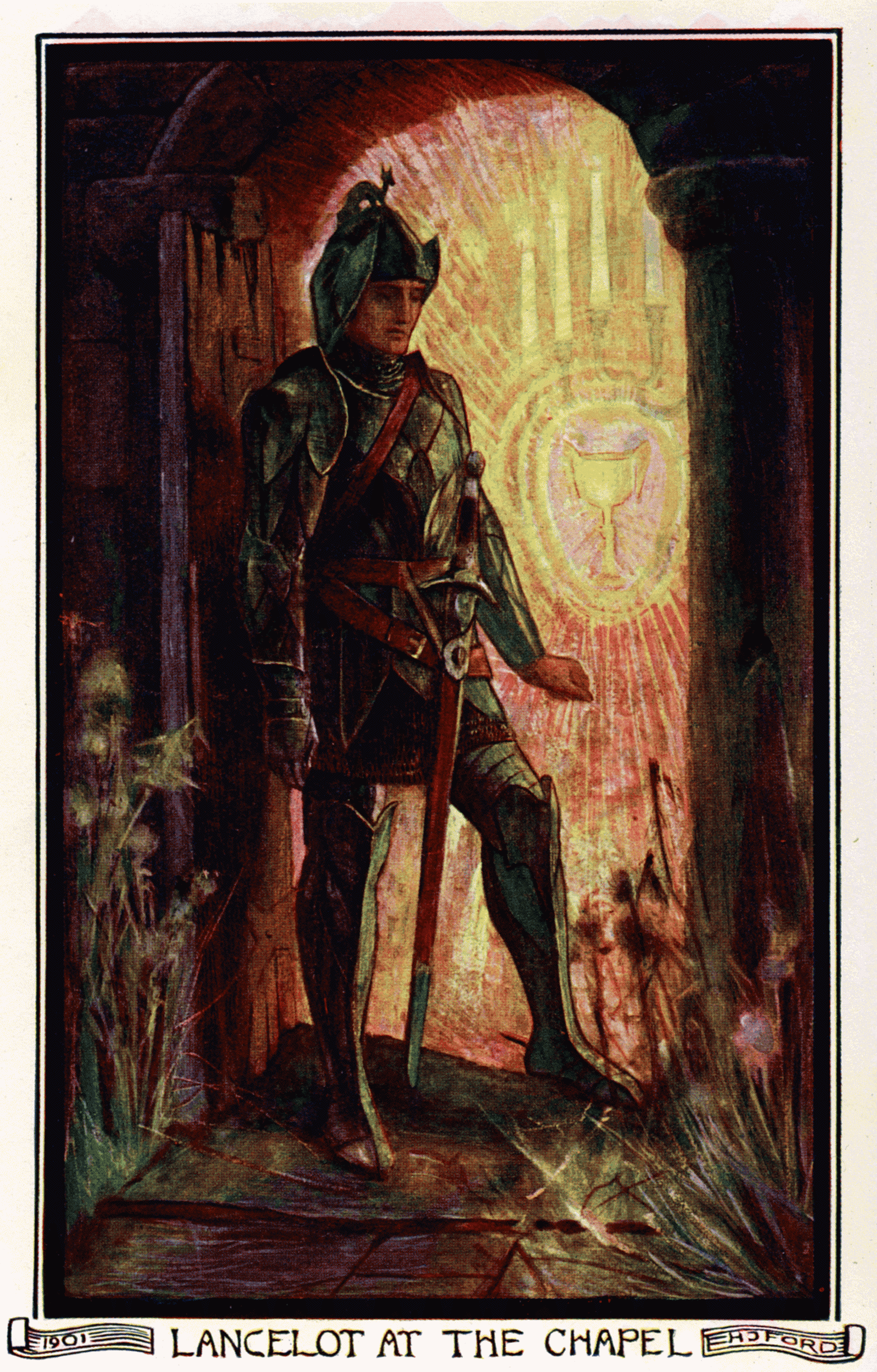 "Lancelot at the Chapel", an illustration from "The Book of Romance". (Can be found at Project Gutenberg, )